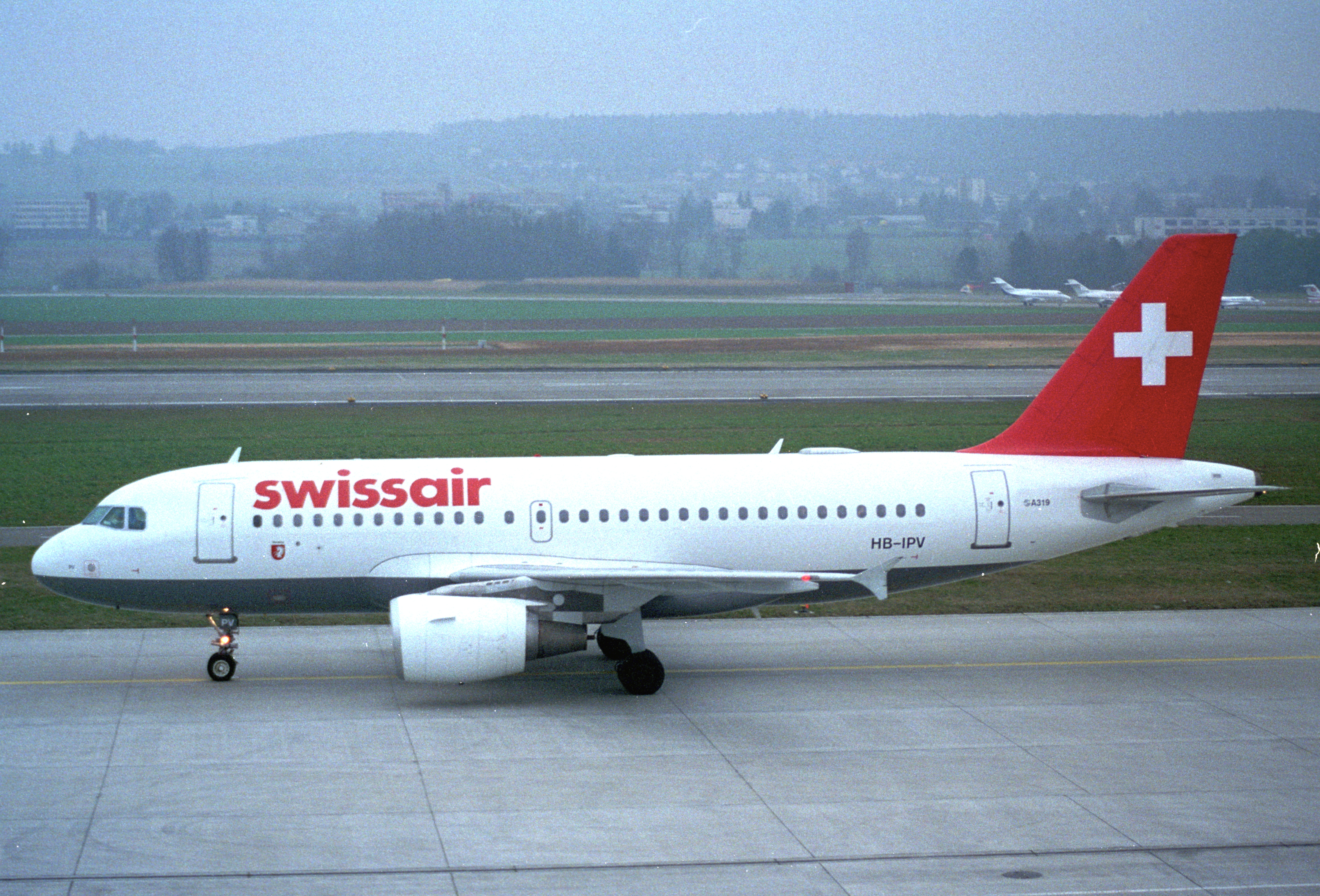 Swissair Airbus A319-112; HB-IPV@ZRH;09.03.1997